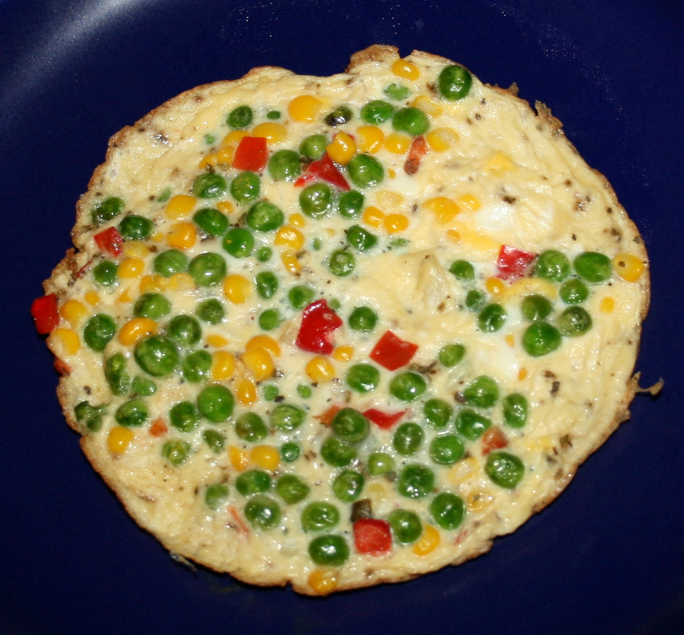 A small omelette made from 2 eggs, with peas, corn, bell pepper and some grated Parmesan cheese.